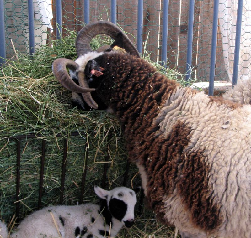 A Jacob ewe and her lamb. The ewe is eating hay from a rack.